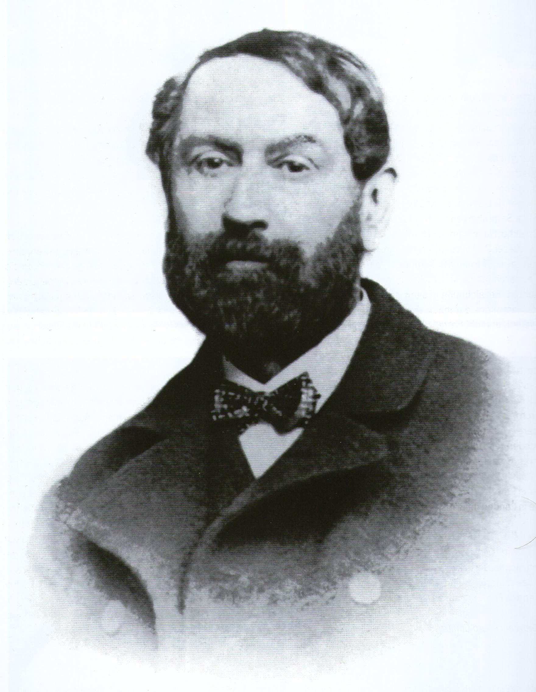 Marchese Giampietro Campana (1808-1880), italien art collector